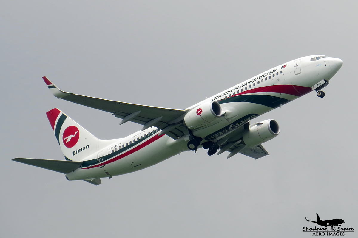 VGHS 2016 | Canon SX50 HS